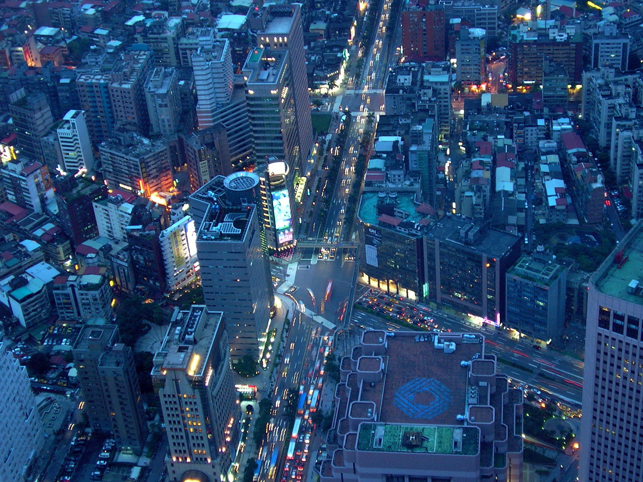 Evening rushhour in Taipei, Taiwan. Taken from the observation deck of Taipei 101.